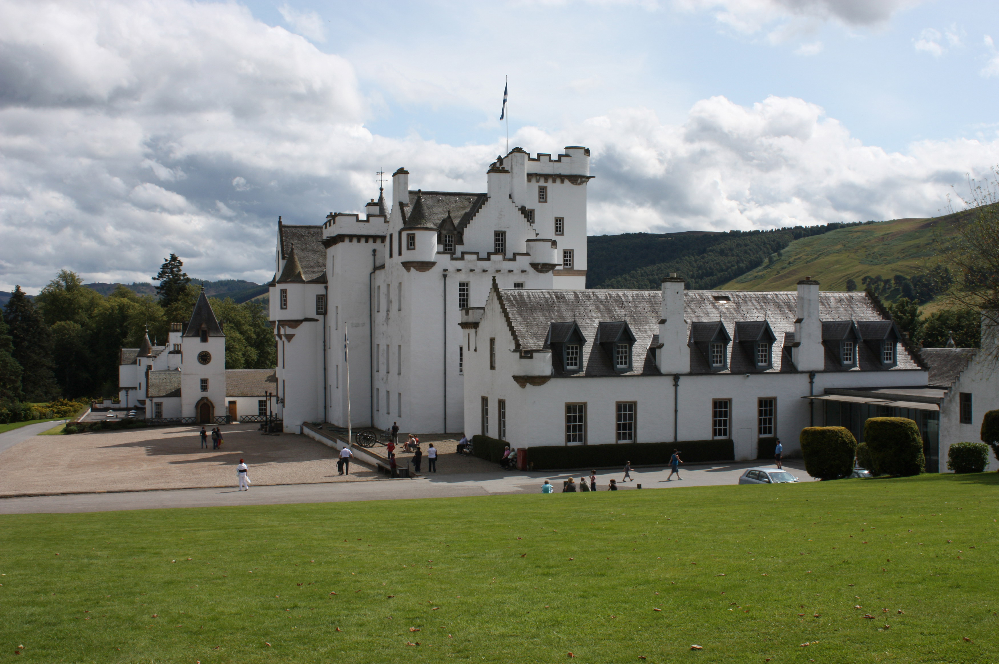 Blair Castle.